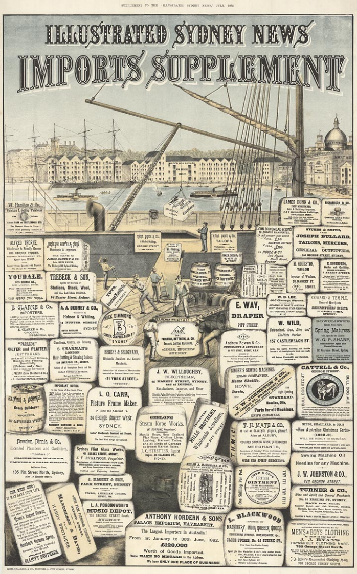 Imports Supplement to the Illustrated Sydney News July 1882